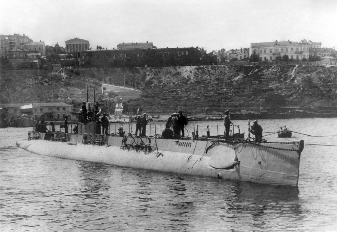 Submarine Narval at the Southern bay in Sevastopol. Probably former the Revolution 1917.